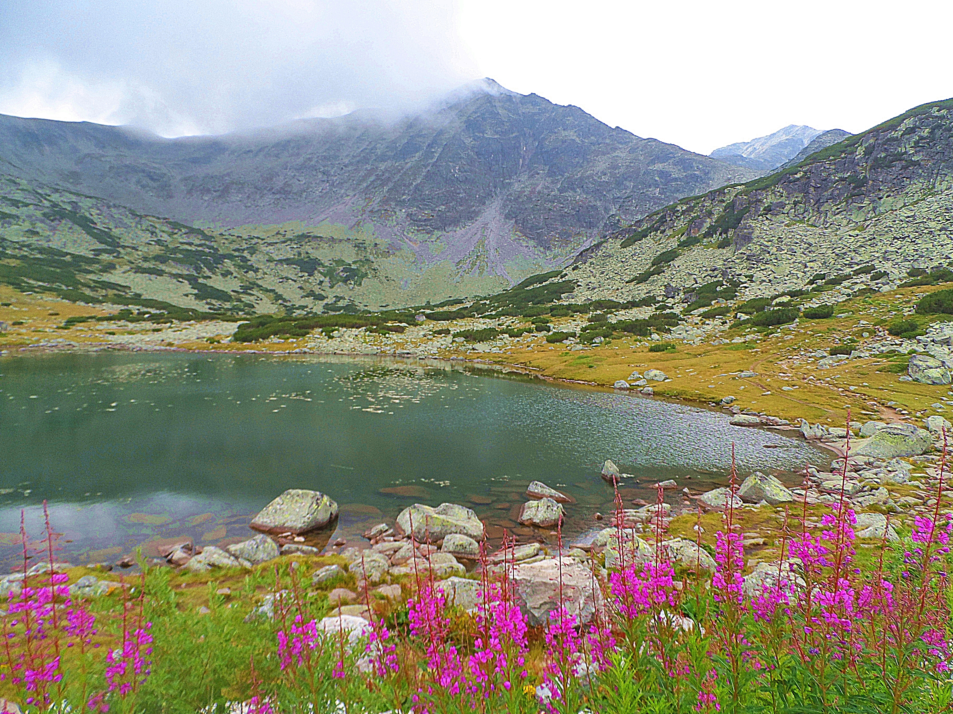 One of the Musala lakes. At the back can be seen mount Musala.